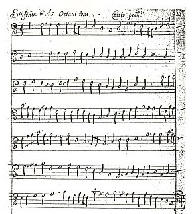 Page 33 of the manuscript Oxford, Christ Church College, Mus. ms. 429, with seven Sinfonias by Leonora Duarte. The heading is written by Gaspar Duarte sr., the scribe of the music is unknown.